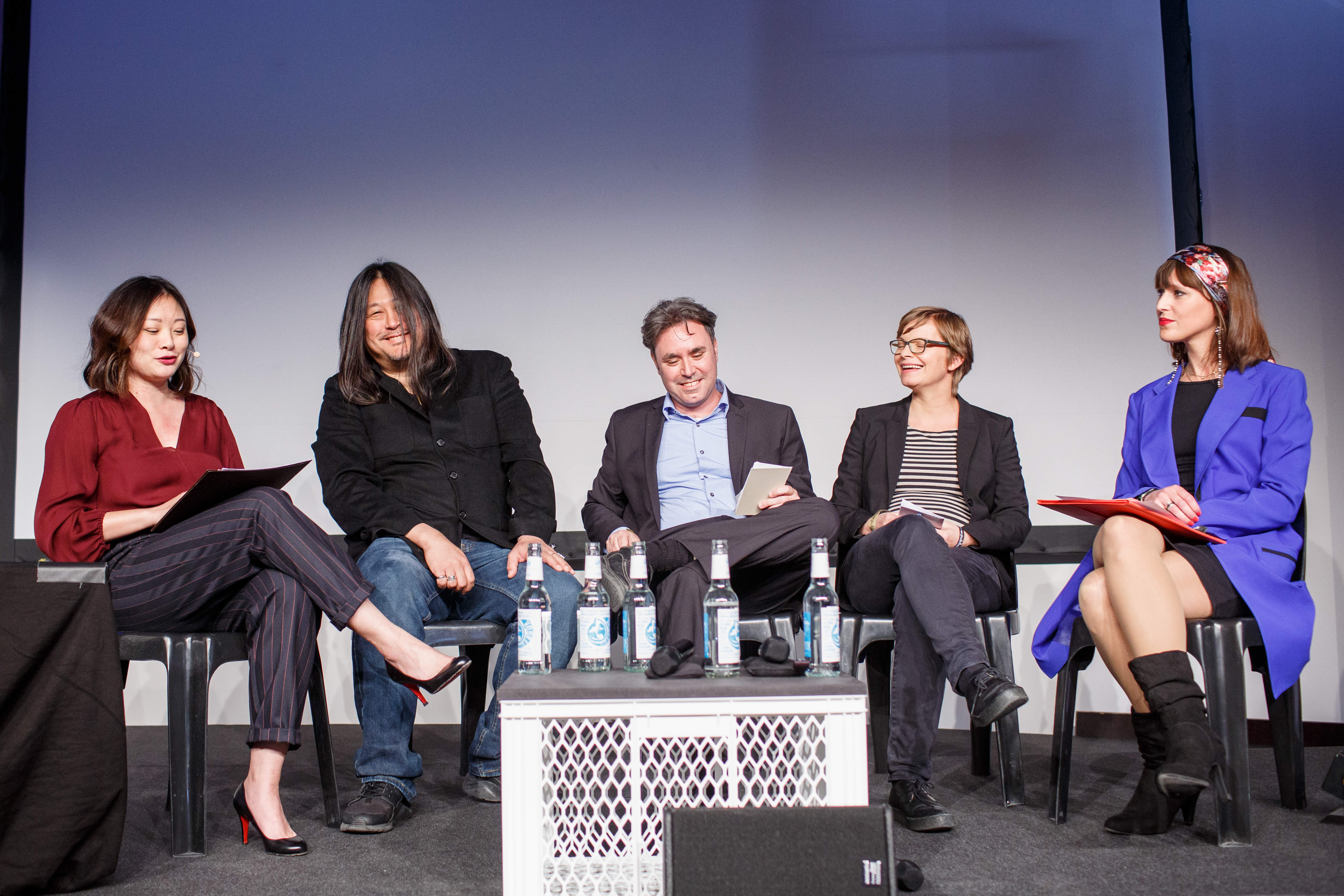 Discussion: Beyond Black Mirror - China's Social Credit System Speaker: Kaiser Kuo, Jeremy Daum, Genia Kostka, Manya Koetse Melissa Chan